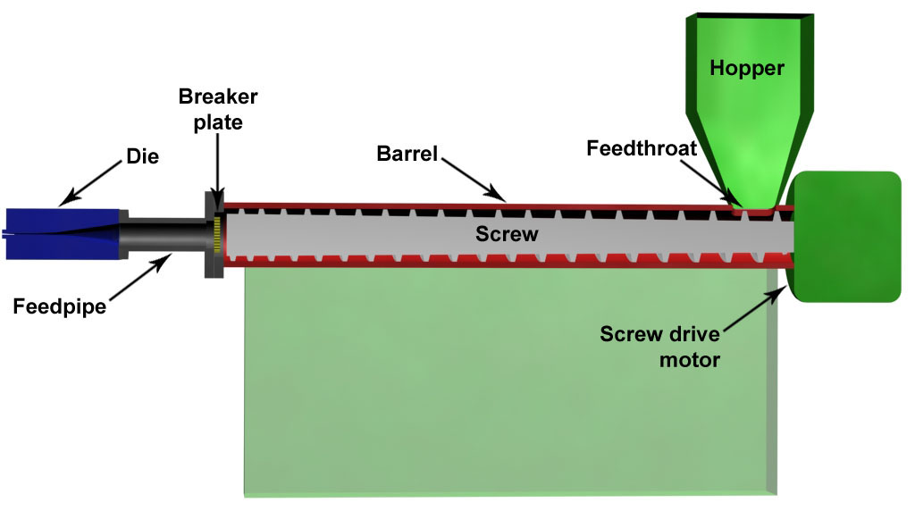 Plastic extruder cut in half and labeled.